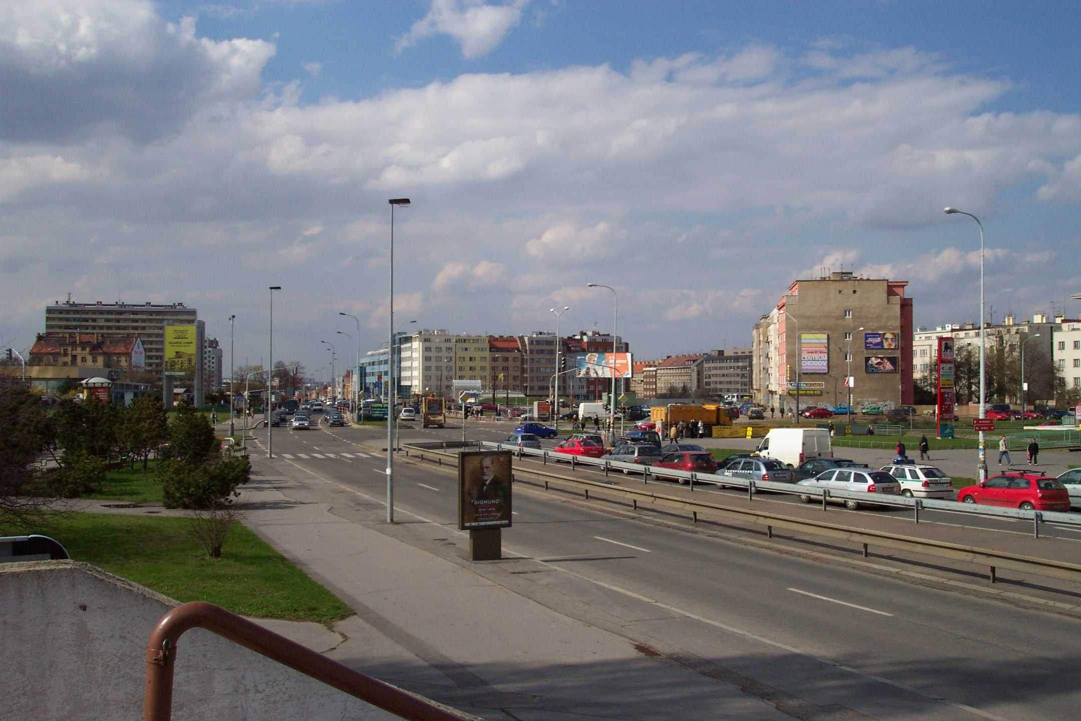 Crossing in Prague - Pankrác